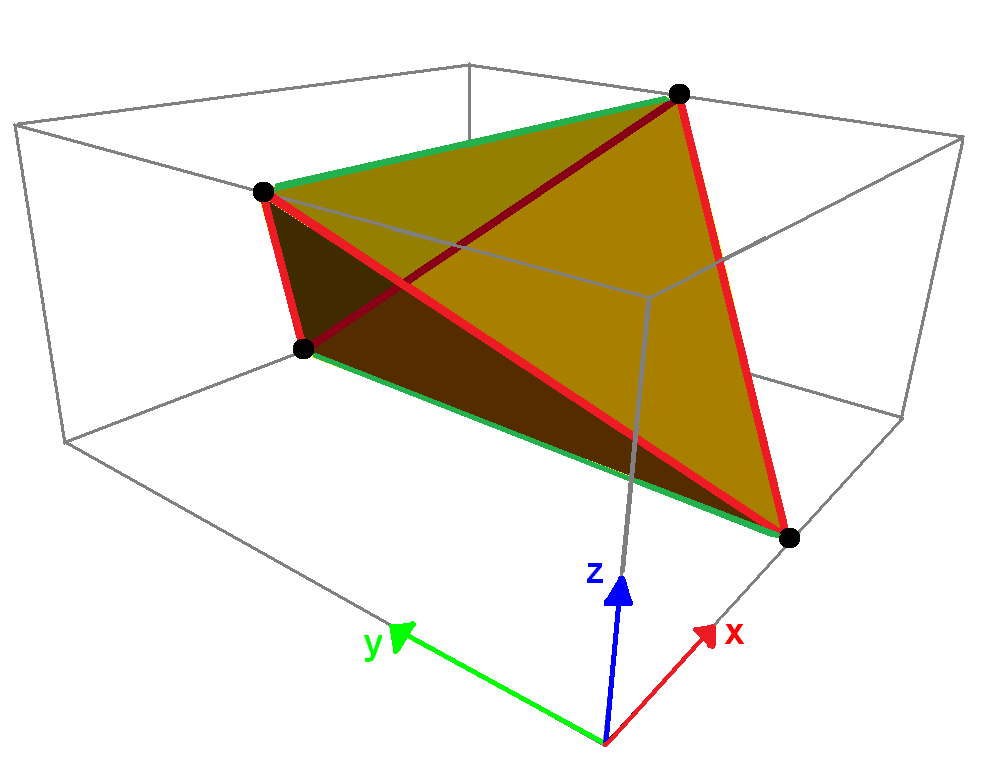 Data: Obj # OBJ # Disphenoid tetrahedron v -1 0 0 v 1 0 0 v 0 1 1 v 0 1 -1 f 1 2 3 f 1 2 4 f 1 3 4 f 2 3 4